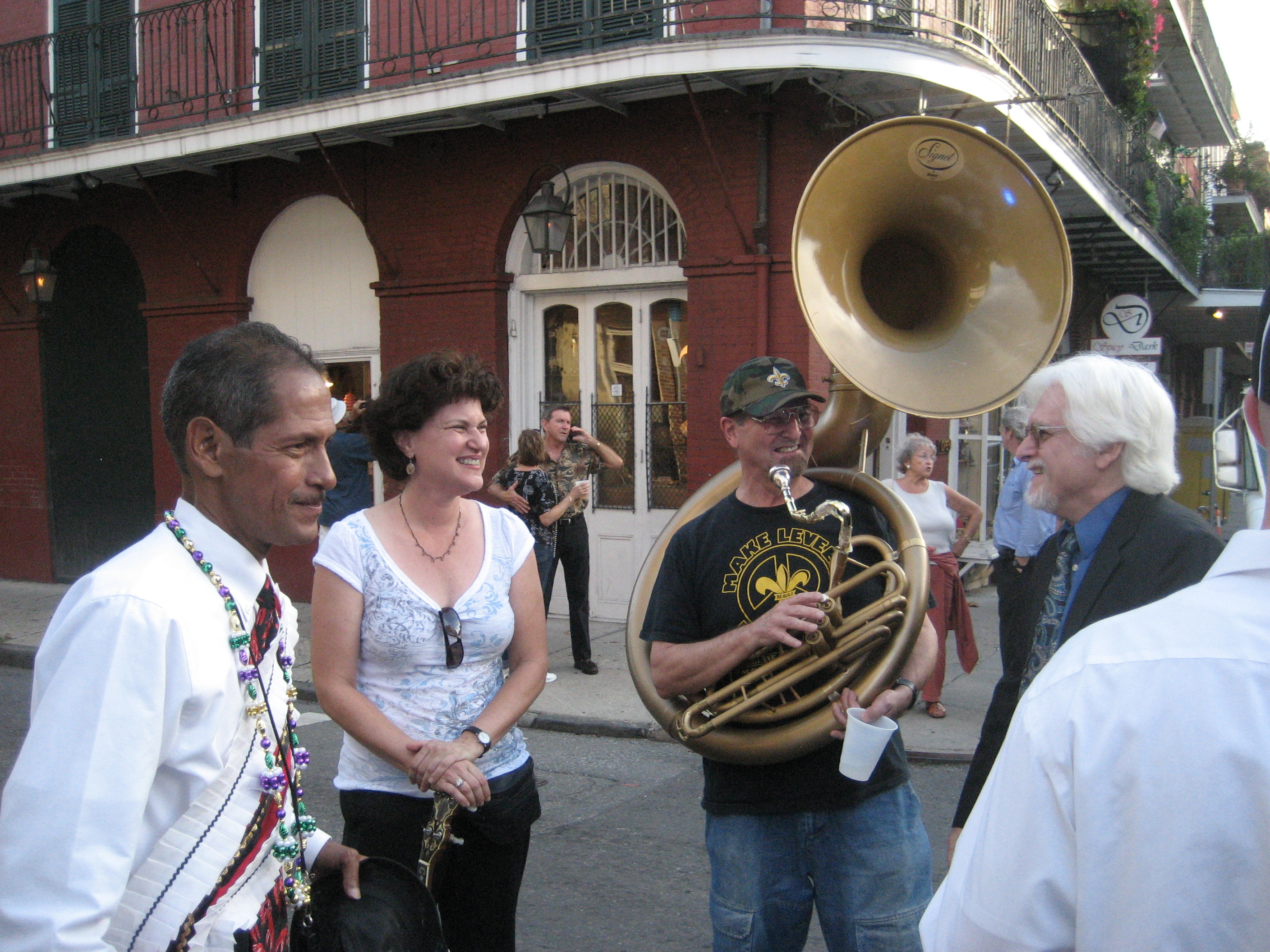 French Quarter, New Orleans